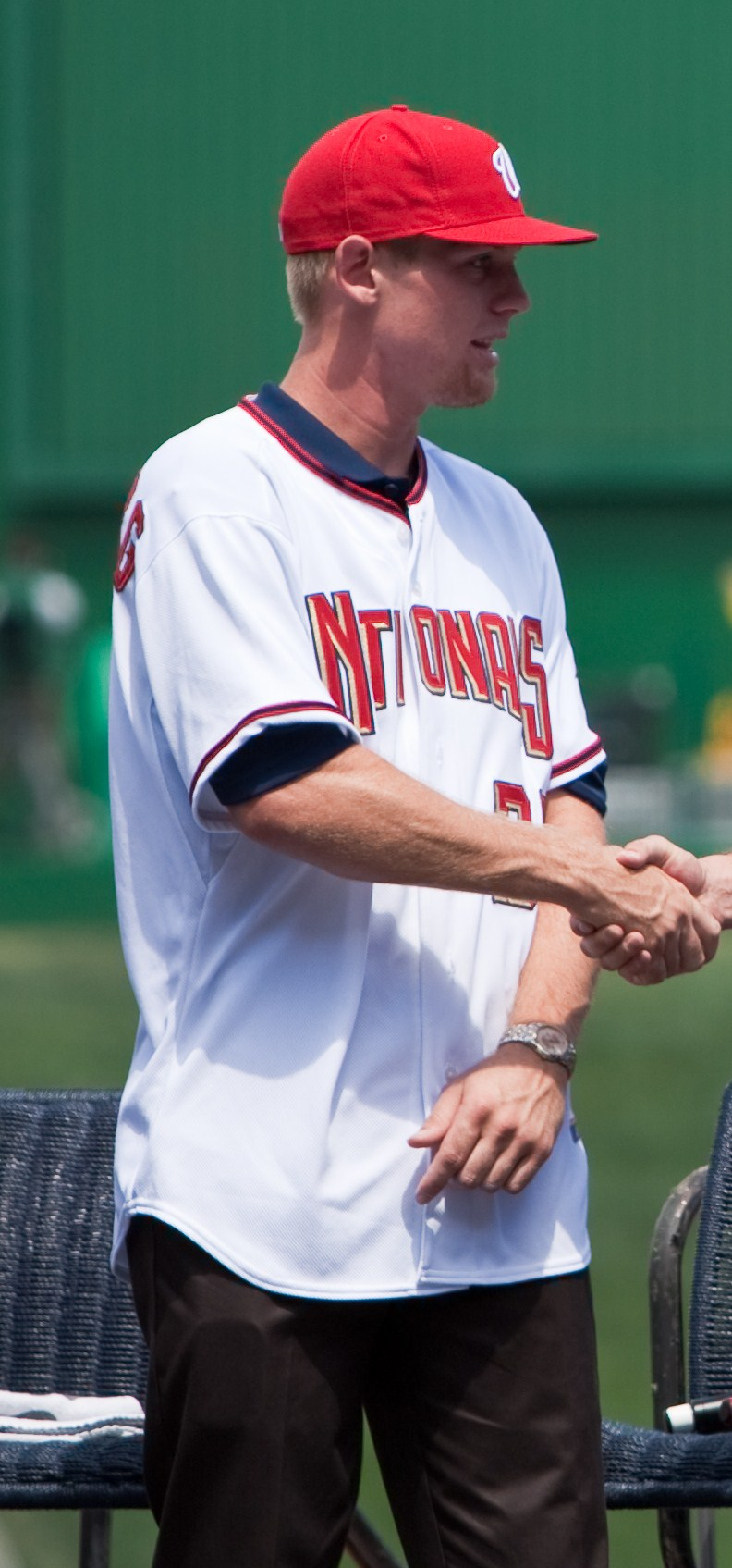 Stephen Strasburg